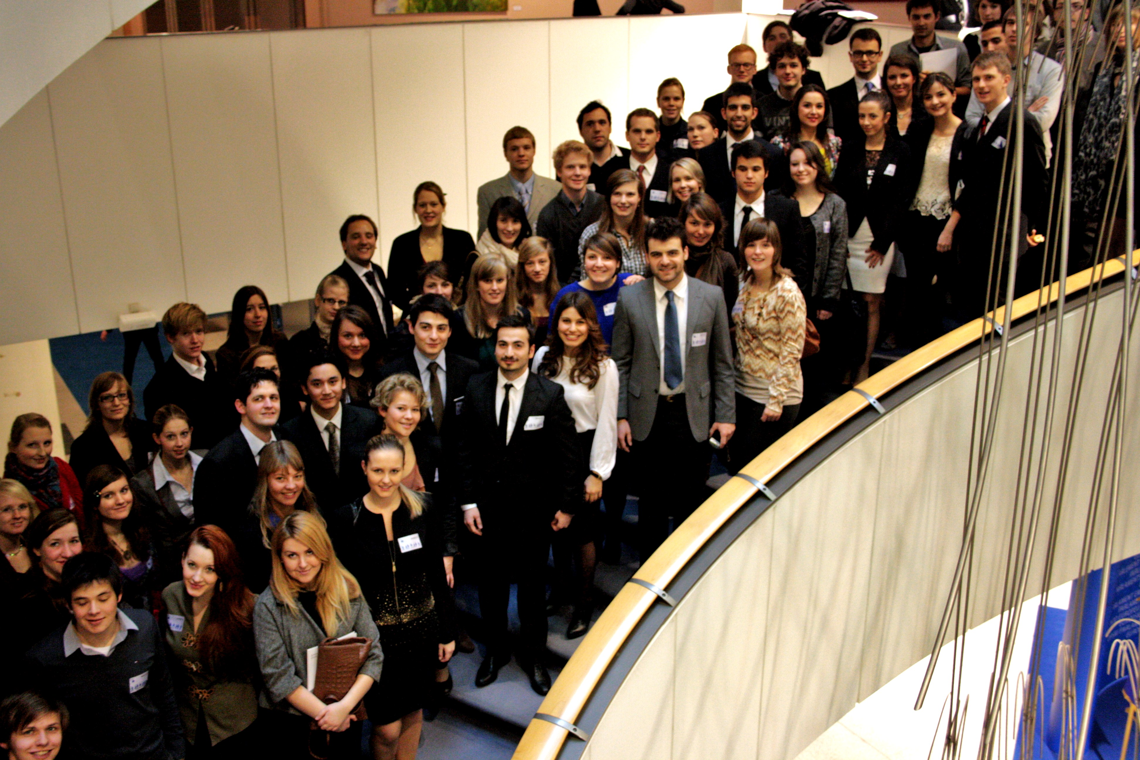 EPSA's event of excellence